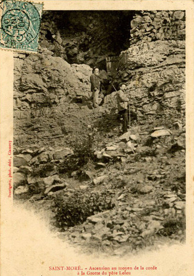 Saint-Moré, Yonne, Burgundy, France. Le père Leleu lived in the cave formerly known as grotte de la Colombine, a shut-down ochre mine in which he had previously worked as miner, in Saint-Moré at the turn of the 20th century. He died in 1913 in his cave that to this day retains his name. Read his story here, here, here and here.